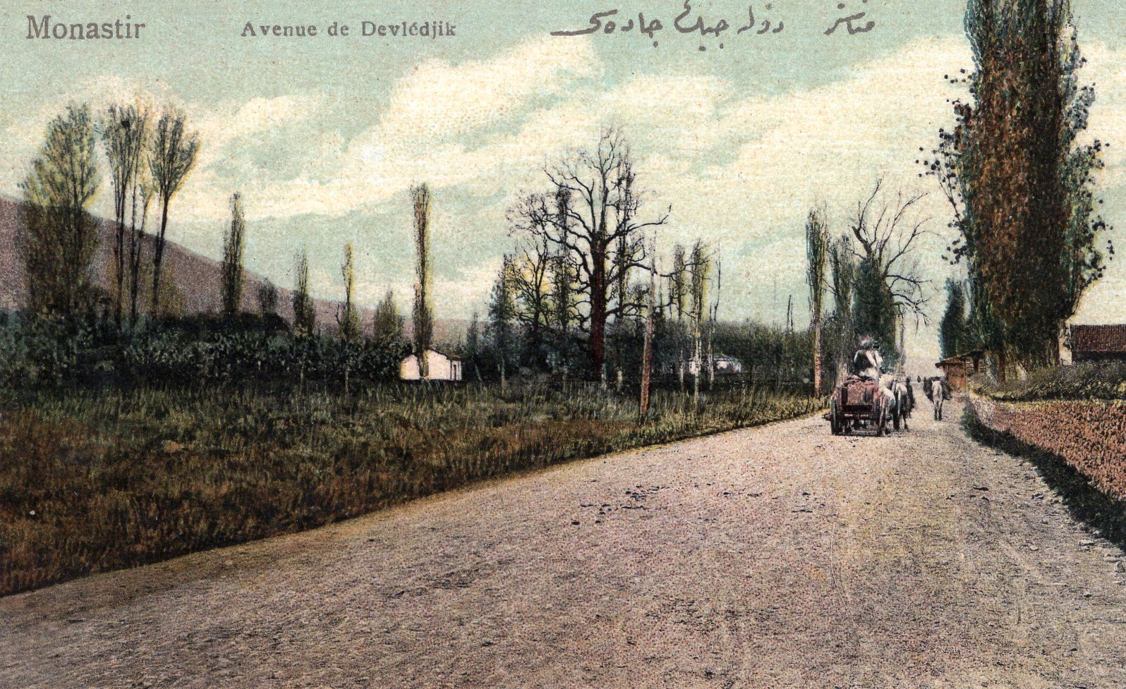 Postcard of Monastir, Ottoman Empire (now Bitola, North Macedonia), 1912